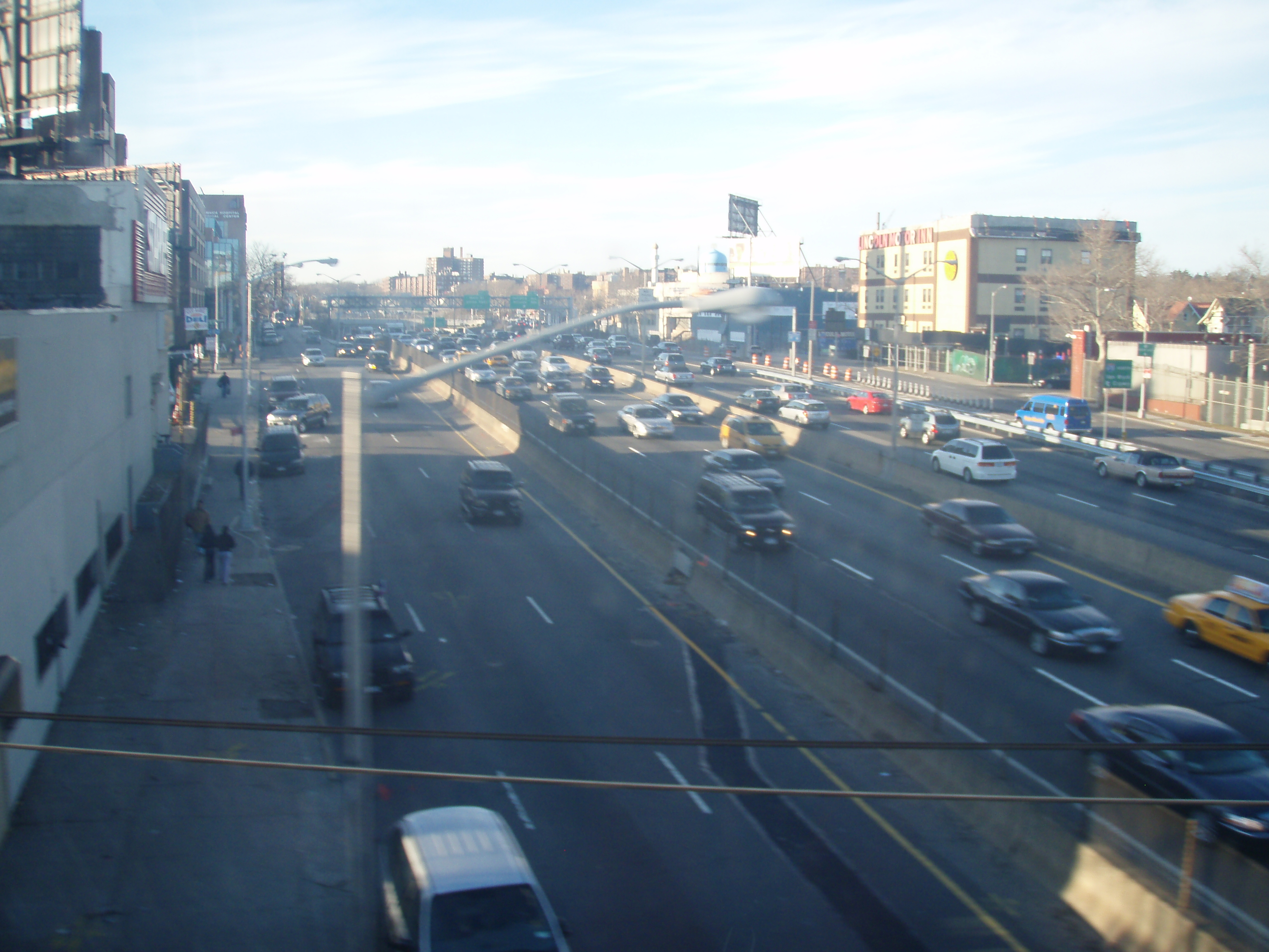 Looking north at Interstate 678 in Jamaica, Queens, New York City. Picture taken by User:NHRHS2010.